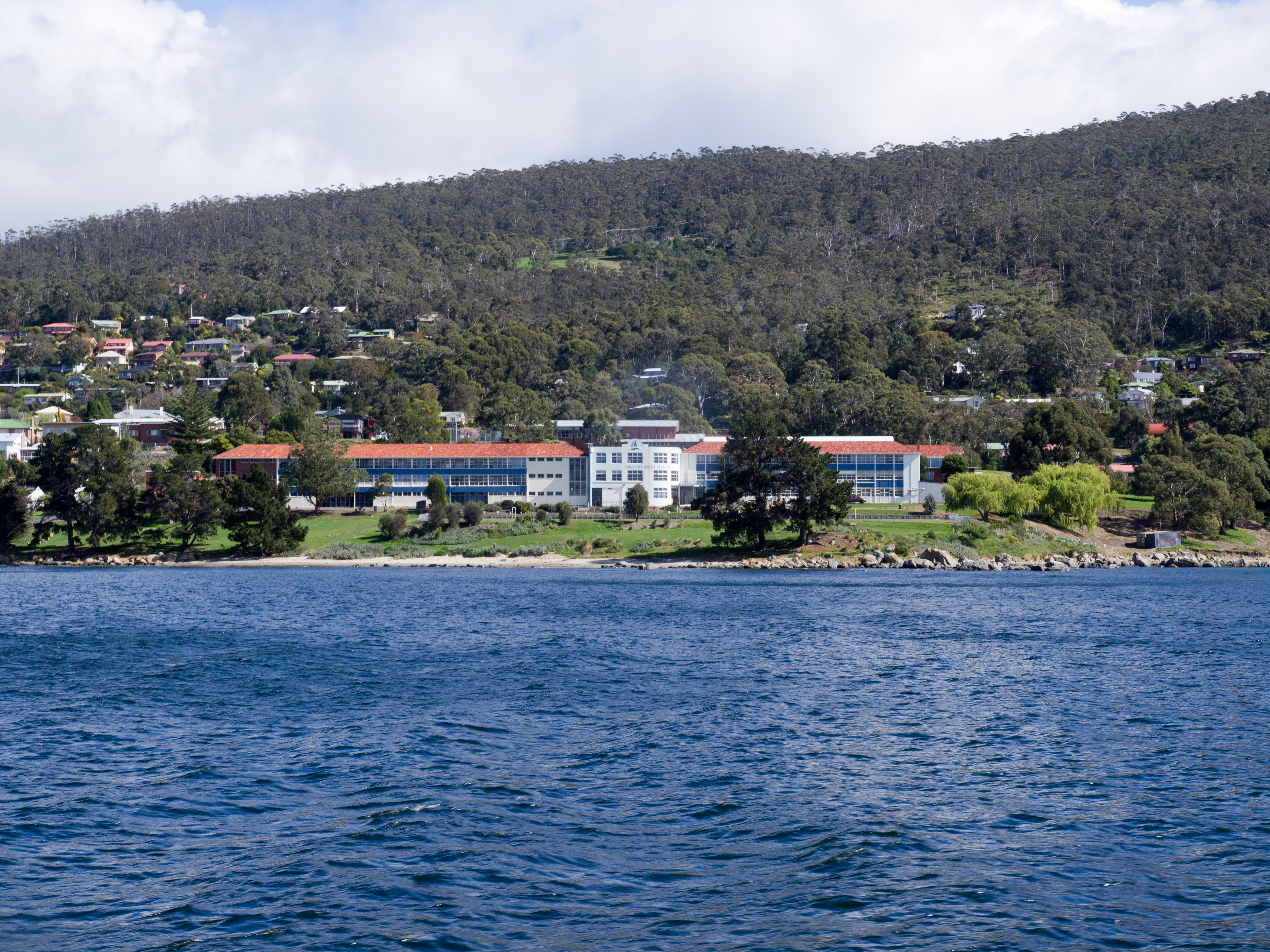 Taroona High School is fortunate enough to have a beach front placement along the Derwent River.